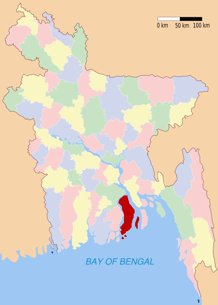 District locator map in red in Bangladesh